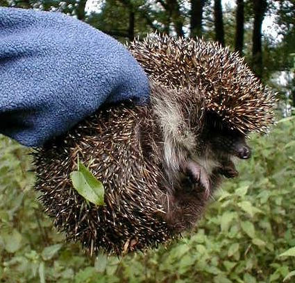 European hedgehog, Erinaceus europaeaus